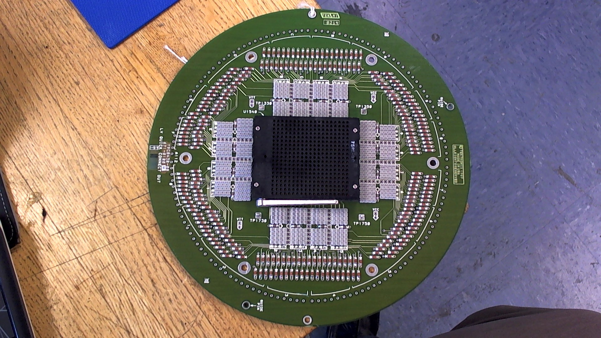 DUT board